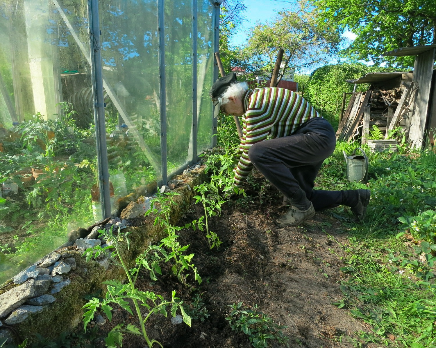 87-year-old gardener is planting tomato plants in her home (hobby) garden in Harju County (Estonia). Estonian summer is usually too cold to get good tomatoes from outside the greenhouse. Yet as the gardener had so many nice excess plants (that had no place in the greenhouse), she decided to plant them to the sun-exposed Southeastern side of her greenhouse.